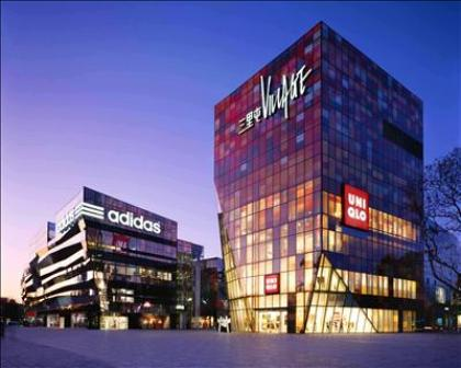 A low-density complex comprising retail space and a hotel, Sanlitun Village in Chaoyang District, Beijing is Swire Properties' first completed investment project in Mainland China and our vision of the vibe of the capital.